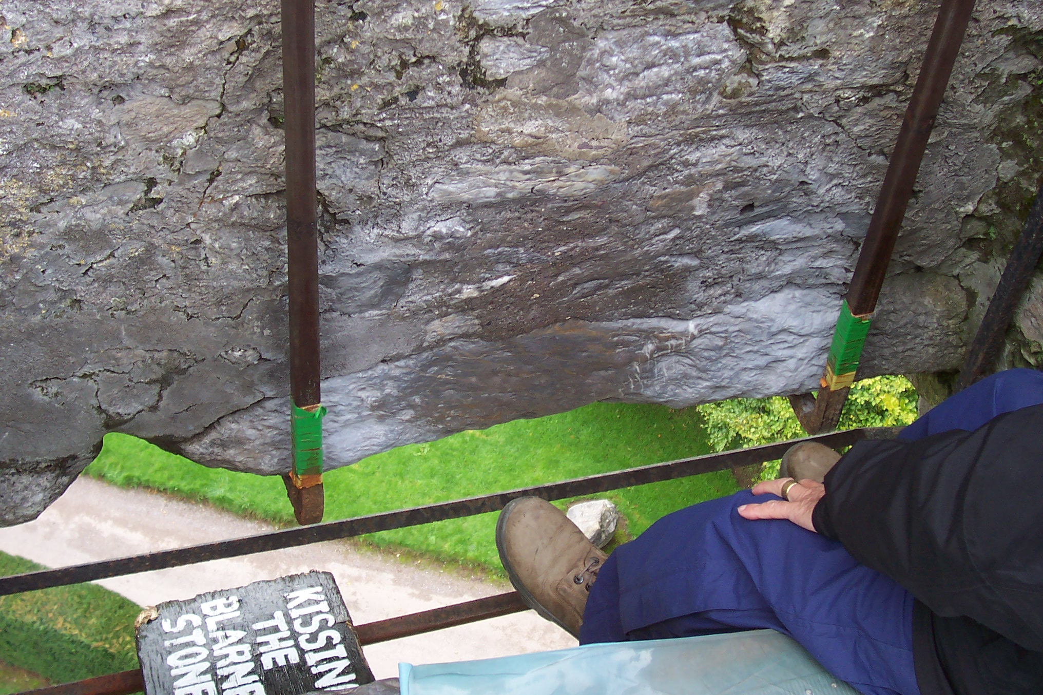 Blarney Stone, County Cork, Ireland